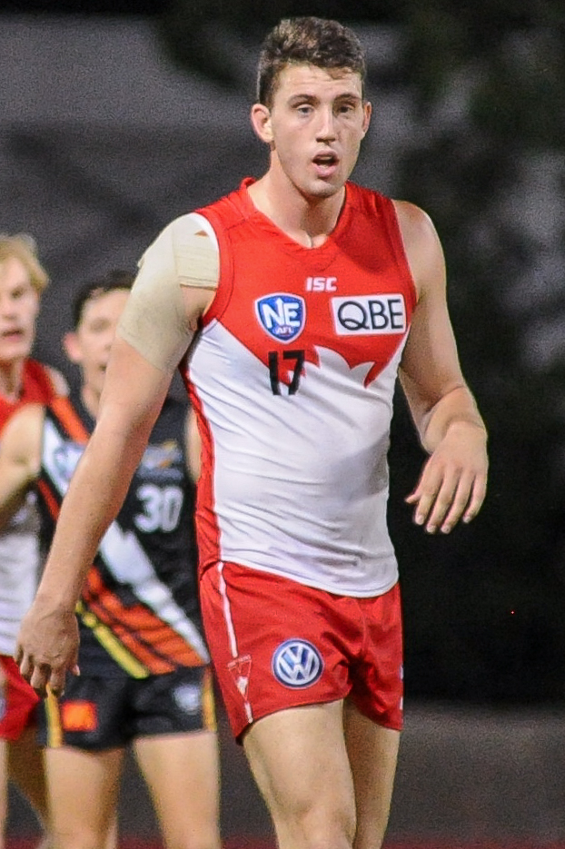 Darcy Cameron playing for the Sydney Swans' reserves in April 2017.